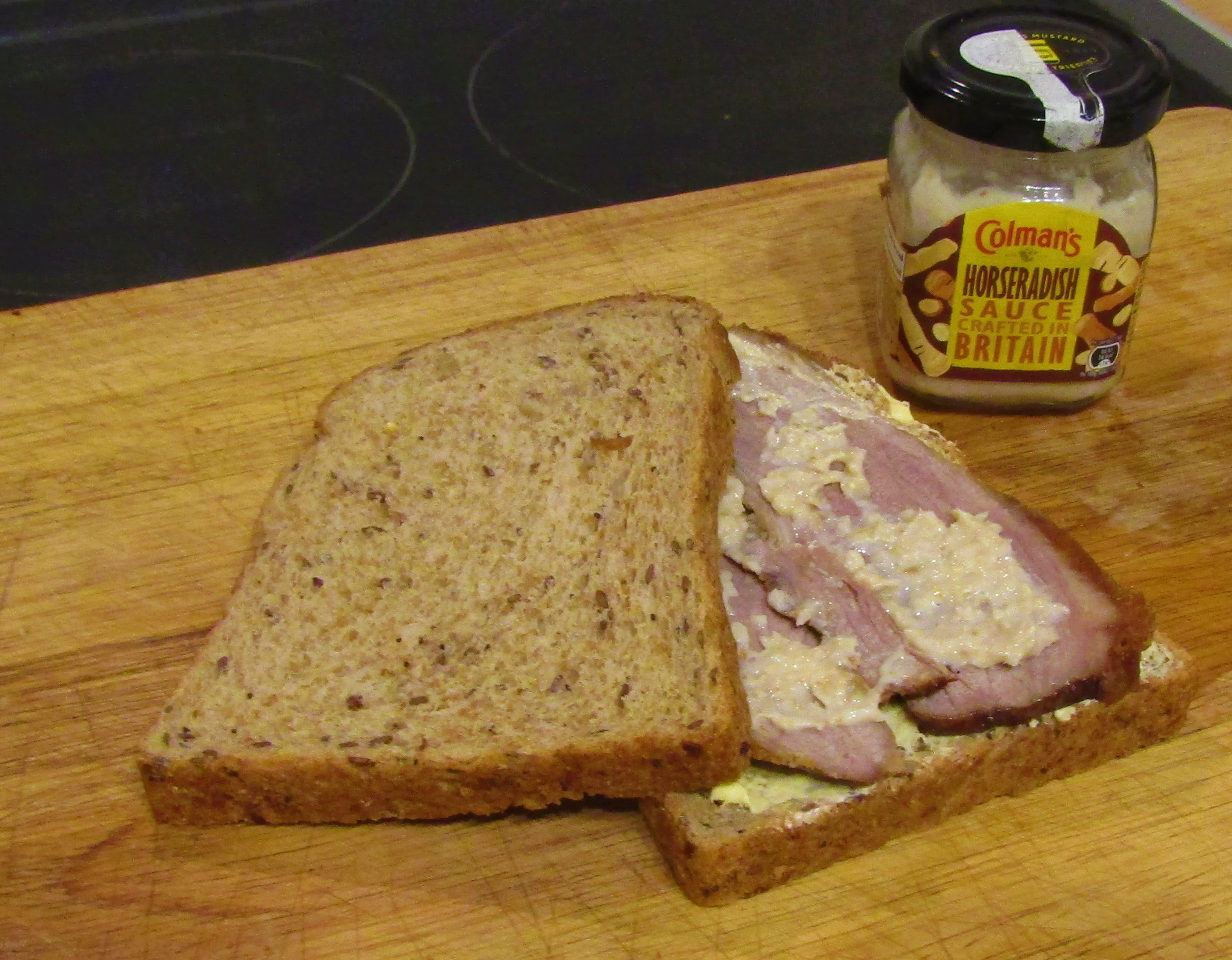 A beef and horseradish on wholemeal bread sandwich prepared in a kitchen in the village of Trimingham, Norfolk, England.